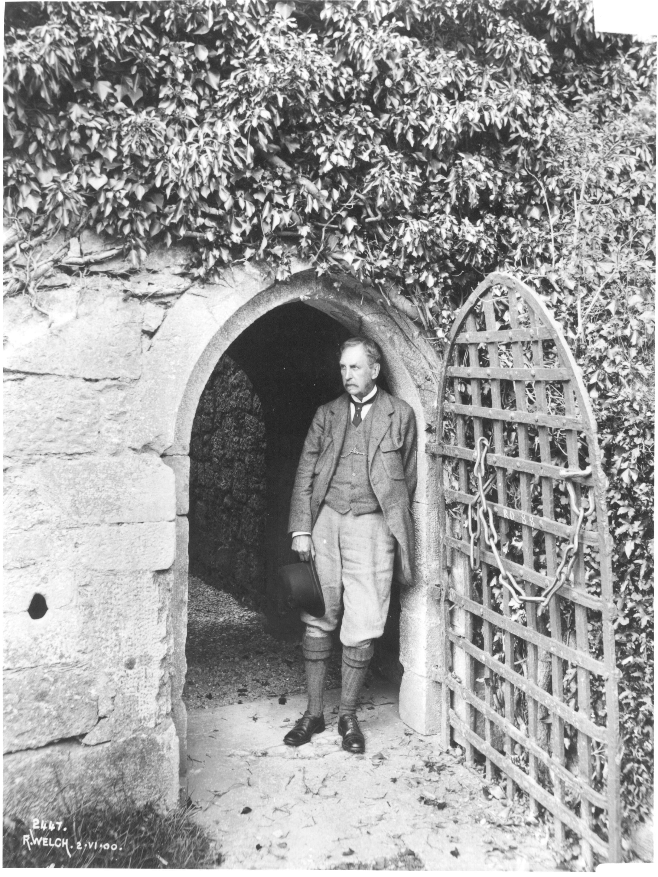 Photograph of Luke Gerald Dillon, 4th Baron Clonbrock (1834–1917) standing at a gate of Clonbrock Castle